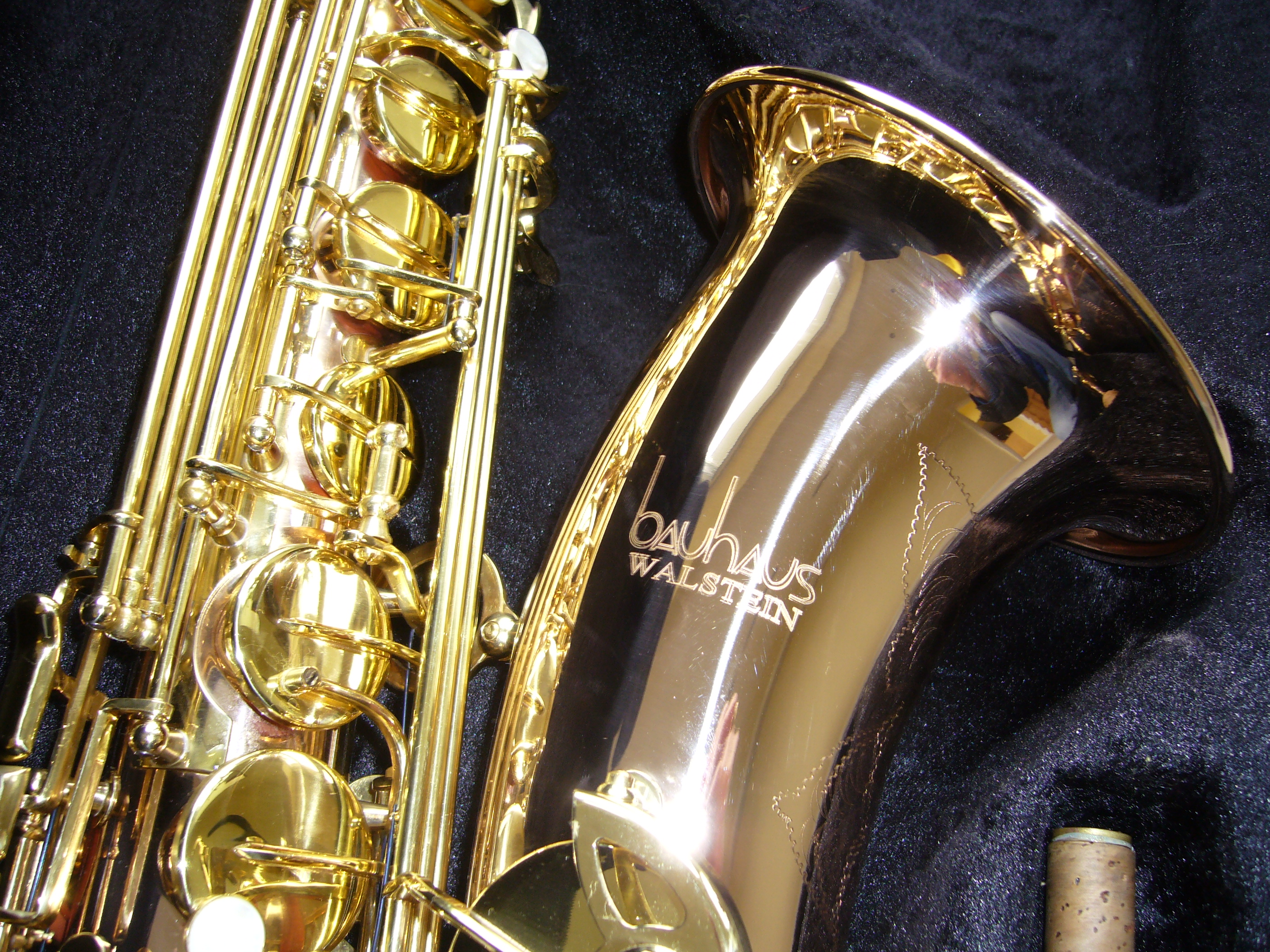 A phosphor bronze tenor saxophone, made by Bauhaus Walstein in 2008.